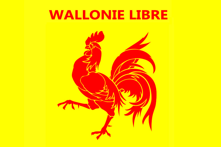 Flag of Wallonie Libre, a minor historical political party in Belgium.